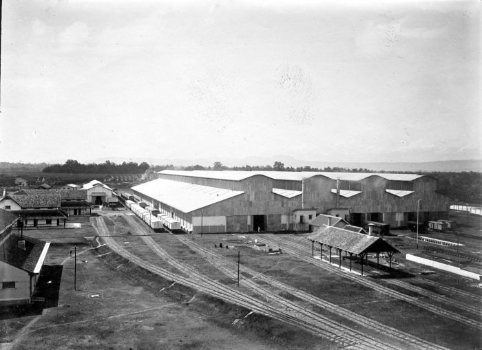 Working-hall of the N.I.S. (Dutch East-Indies Railway Company) in Yogyakarta, Java.